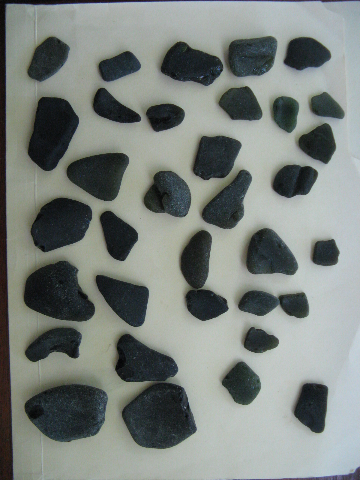 This "black" sea glass was collected in Jamaica 24 Dec. 2009. Under good light the green shade of the original glass before weathering is revealed.